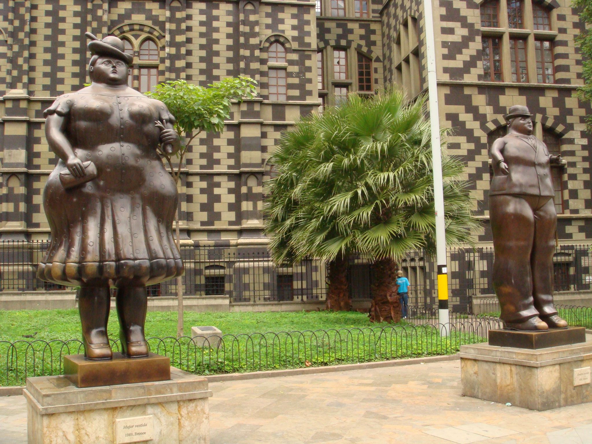 Estátuas de Botero em frente ao Palácio de Cultura (Botero's in front of Culture Palace) Medellin, Colombia by user (WT-shared) Sylx100 15:27, 19 May 2009 (EDT).